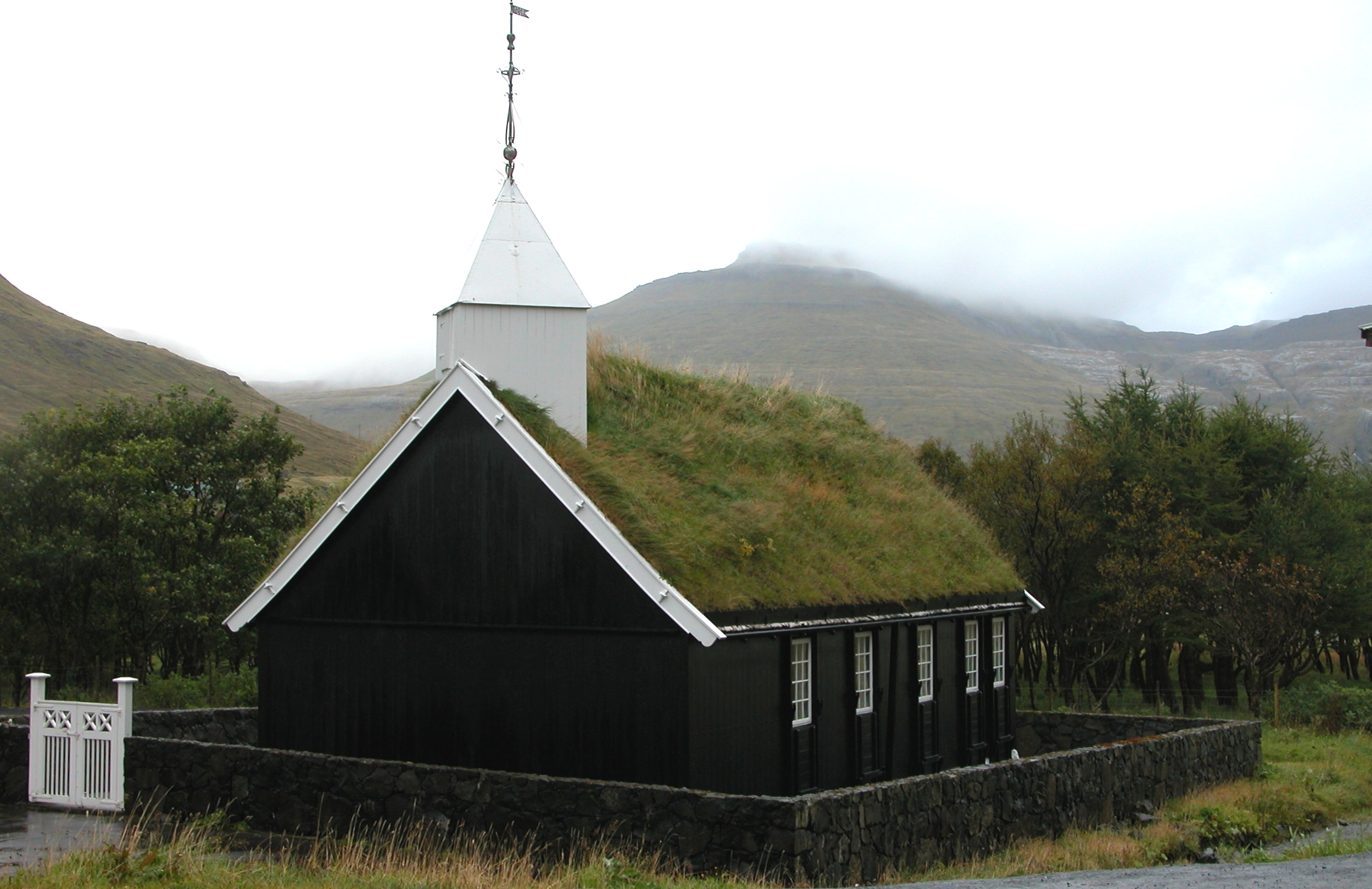 Church of Hvalvík on Streymoy, Faroe Islands